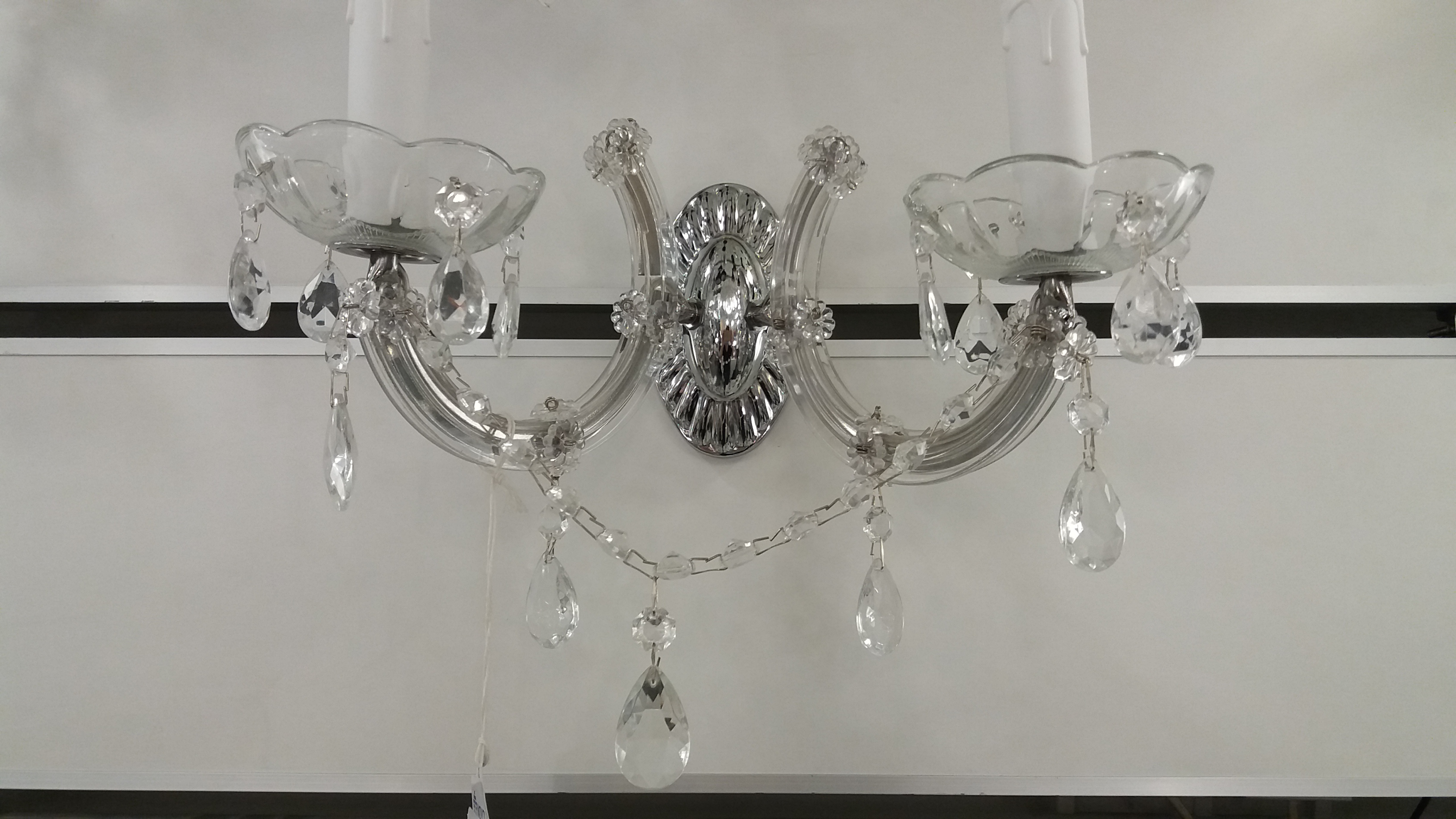 Wall lamp of classic design